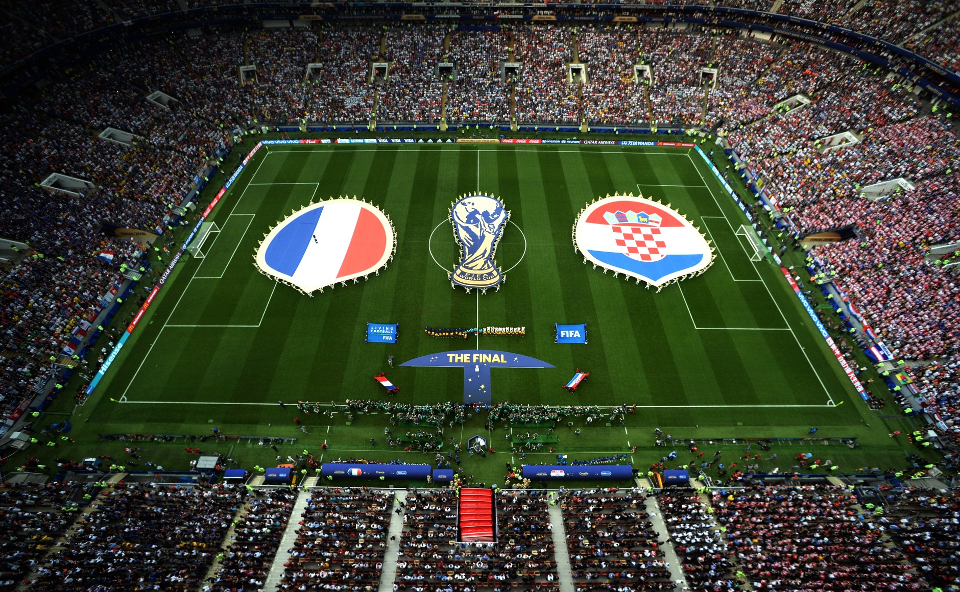 Final of the Soccer World Cup Russia between the national teams of France and Croatia